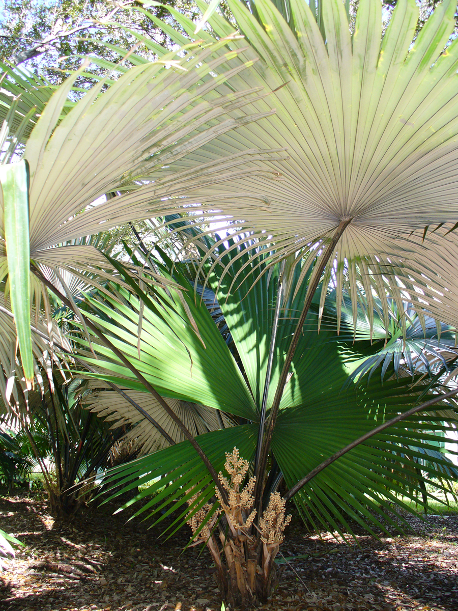 cultivated, Fairchild Tropical Botanic Garden, Miami, Florida, USA.